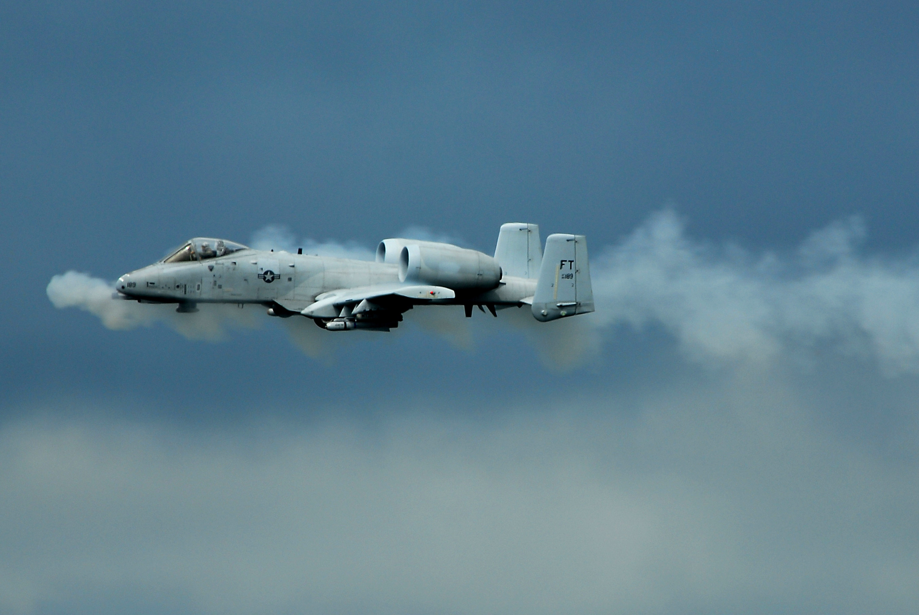 USAF, A-10 Thunderbolt II is an attack aircraft made by Fairchild Aircraft.